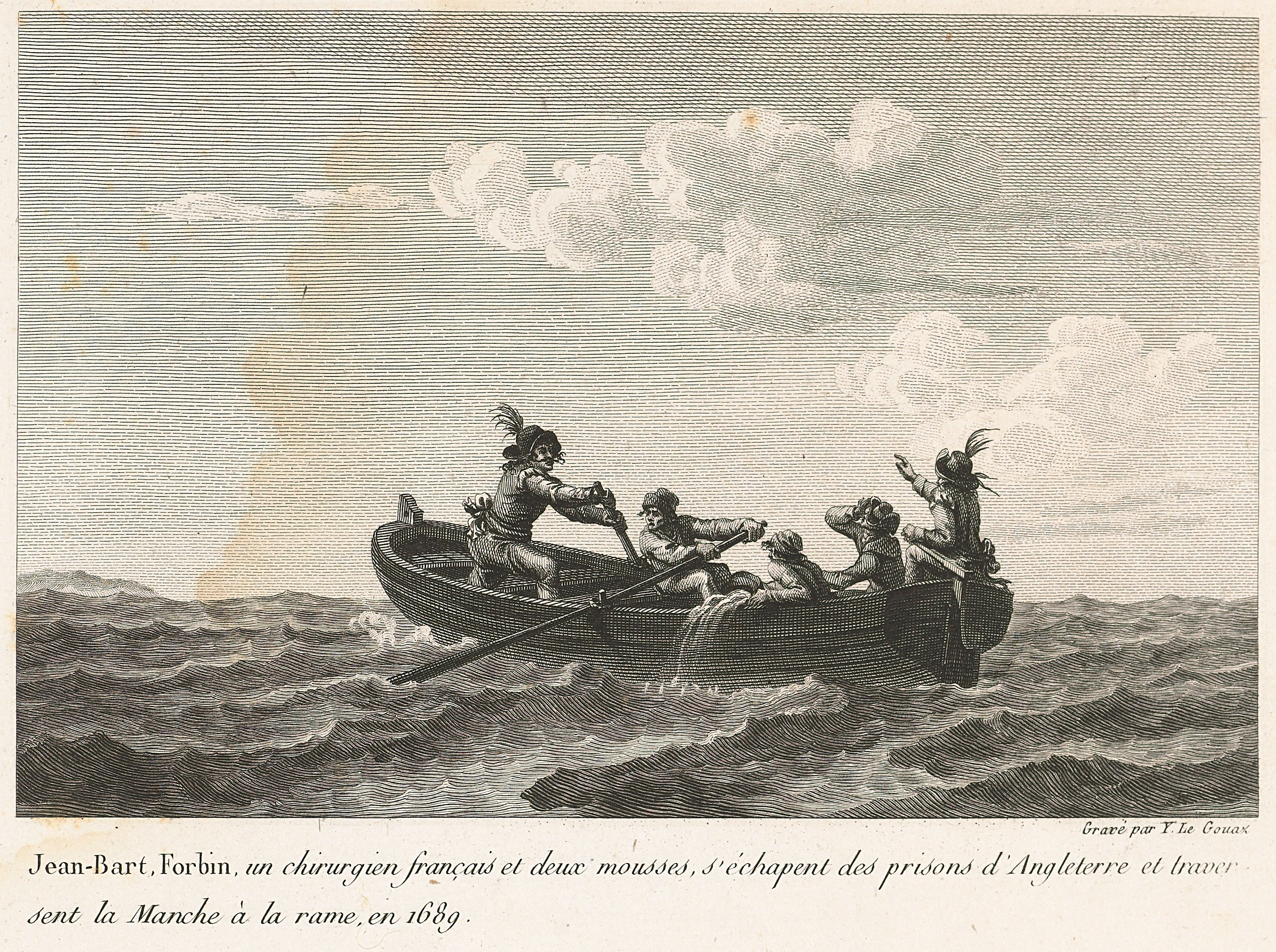 Jean Bart and Forbin escaping to England in 1689.